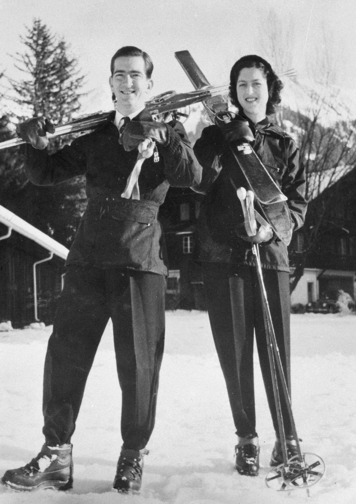 Peter II and Alexandra of Yugoslavia in Gstaad